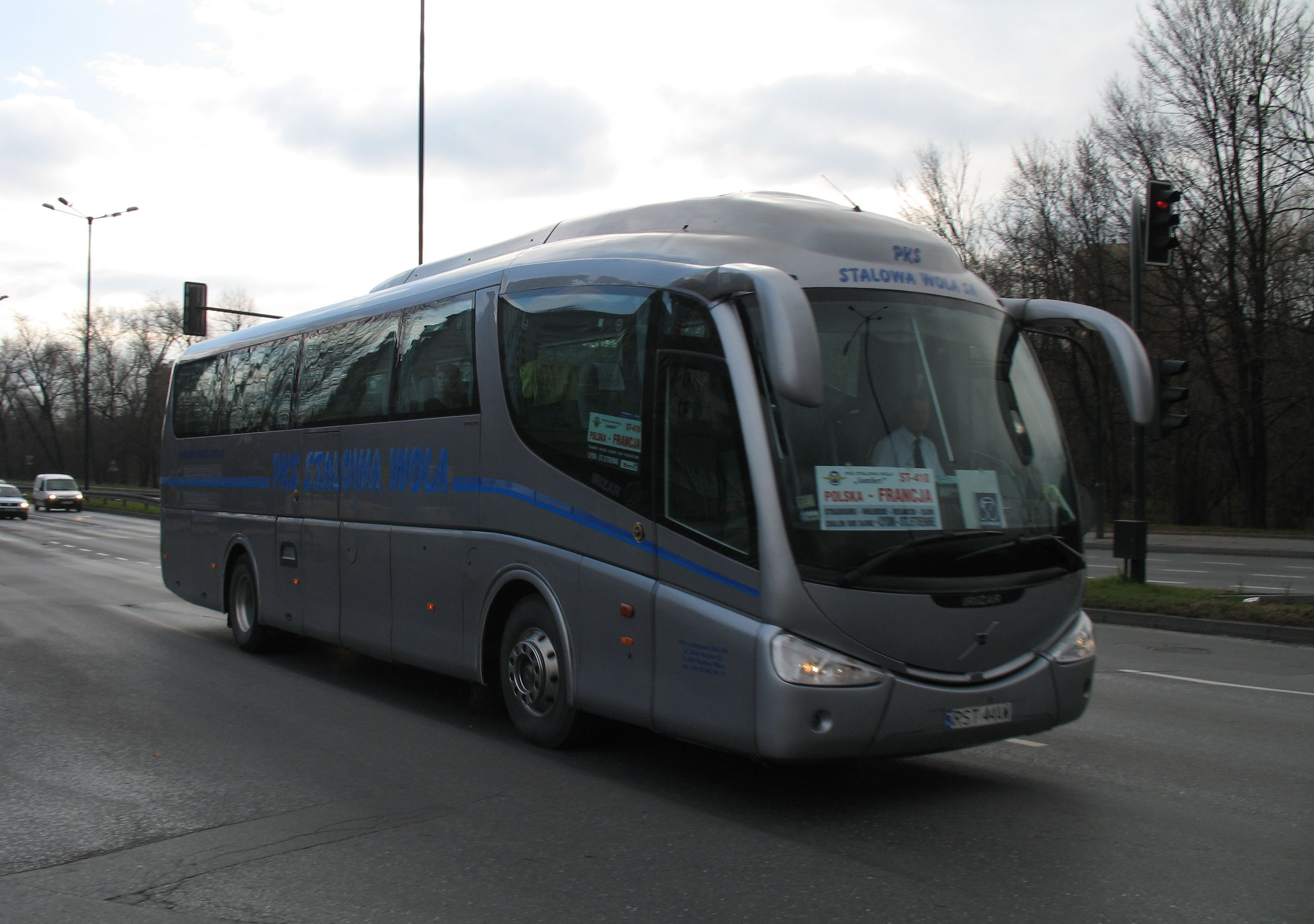 Irizar PB coach with Volvo chassis in Kraków (Opolska Street), Poland. Built 2001, PKS Stalowa Wola operator.